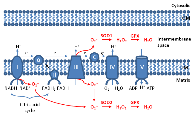 Electrons donated from NADH and FADH2 pass through the electron transport chain and ultimately reduce oxygen to form water at complex IV. Mitochondrial ROS are produced from the leakage of electrons to form superoxide at complex I and complex III. Superoxide is produced within matrix at complex I, whereas at complex III superoxide is released towards both the matrix and the intermembrane space. Once generated, superoxide is dismutated to hydrogen peroxide by superoxide dismutase 1 (SOD1) in the intermembrane space and by SOD2 in the matrix. Afterwards, hydrogen peroxide is fully reduced to water by glutathione peroxidase (GPX). Both superoxide and hydrogen peroxide produced in this process are considered as mitochondrial ROS. OM: outer membrane; IM: inner membrane.